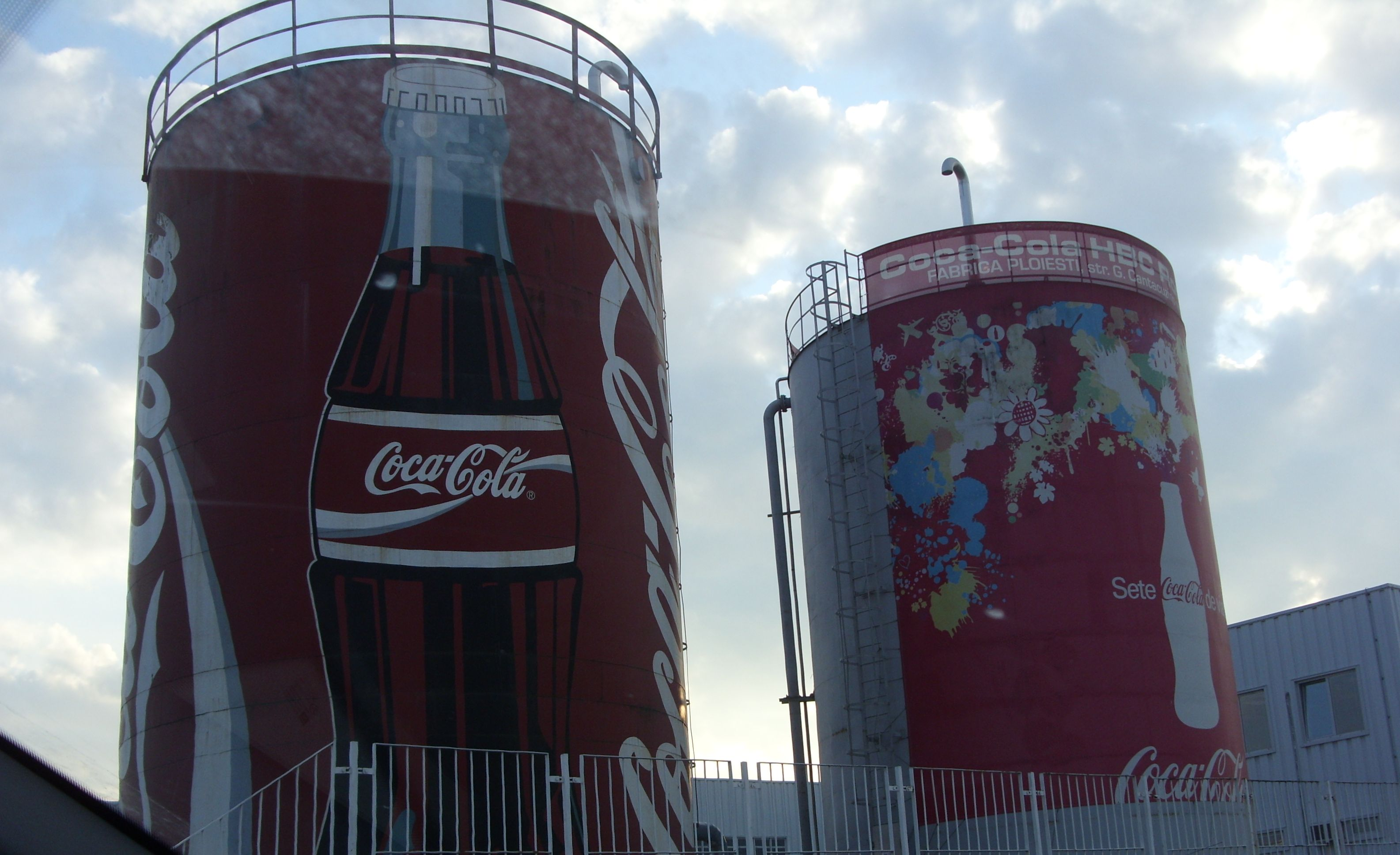 Coca Cola tanks, CCHBC Ploieşti plant, Romania